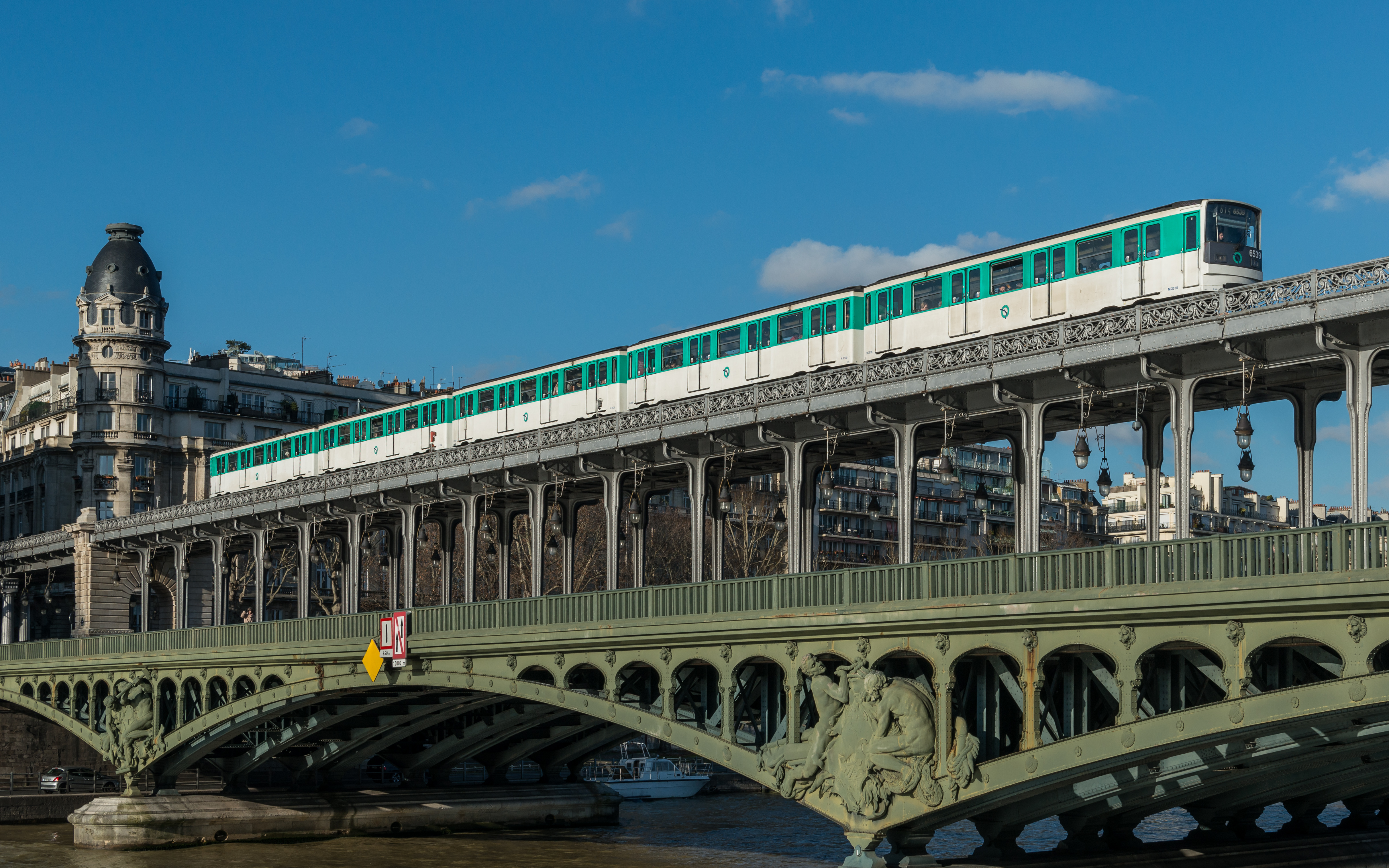 A Paris Métro Line 6 train crossing the river Seine on the Pont de Bir-Hakeim